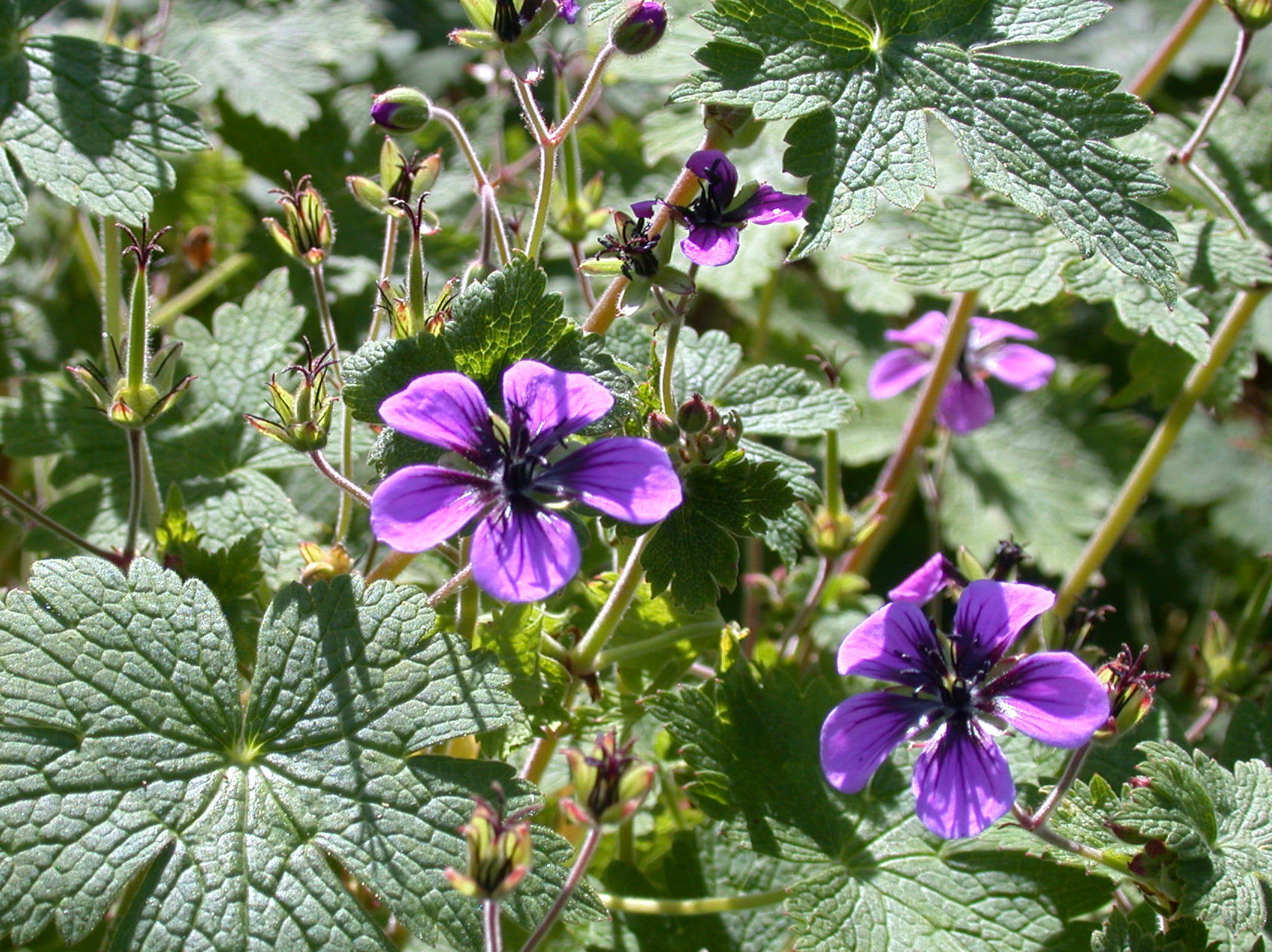 Specimen labelled: "Geranium procurrens Yeo. Himalaya."